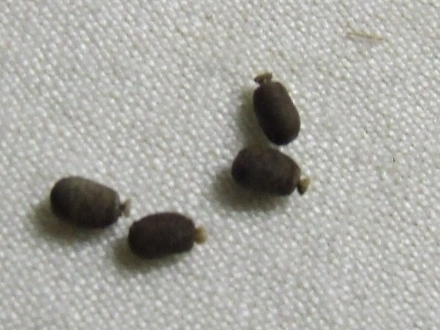 Titan egg